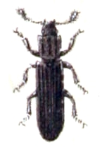 Colydium elongatum, from Calwer's Käferbuch, Table 14, Picture 30. Taxonomy was updated to 2008, using mostly the sites Fauna Europaea and BioLib. Please contact Sarefo if the determination is wrong!